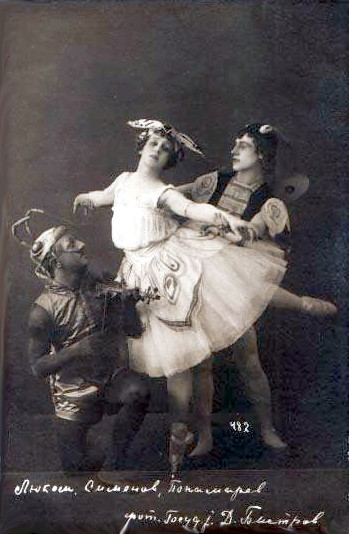 Photo of Victor Semenov as the Grasshopper musician, Elena Lukom as the Butterfly, and Vladimir Ponomarev as the Moth in the choreographer Marius Petipa and the composer Nikolai Krotkov's ballet "Les Caprices du Papillon". St. Petersburg, Russia. 1919.